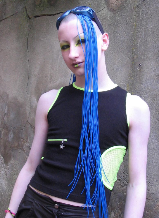 image is pd, contributed by the subject